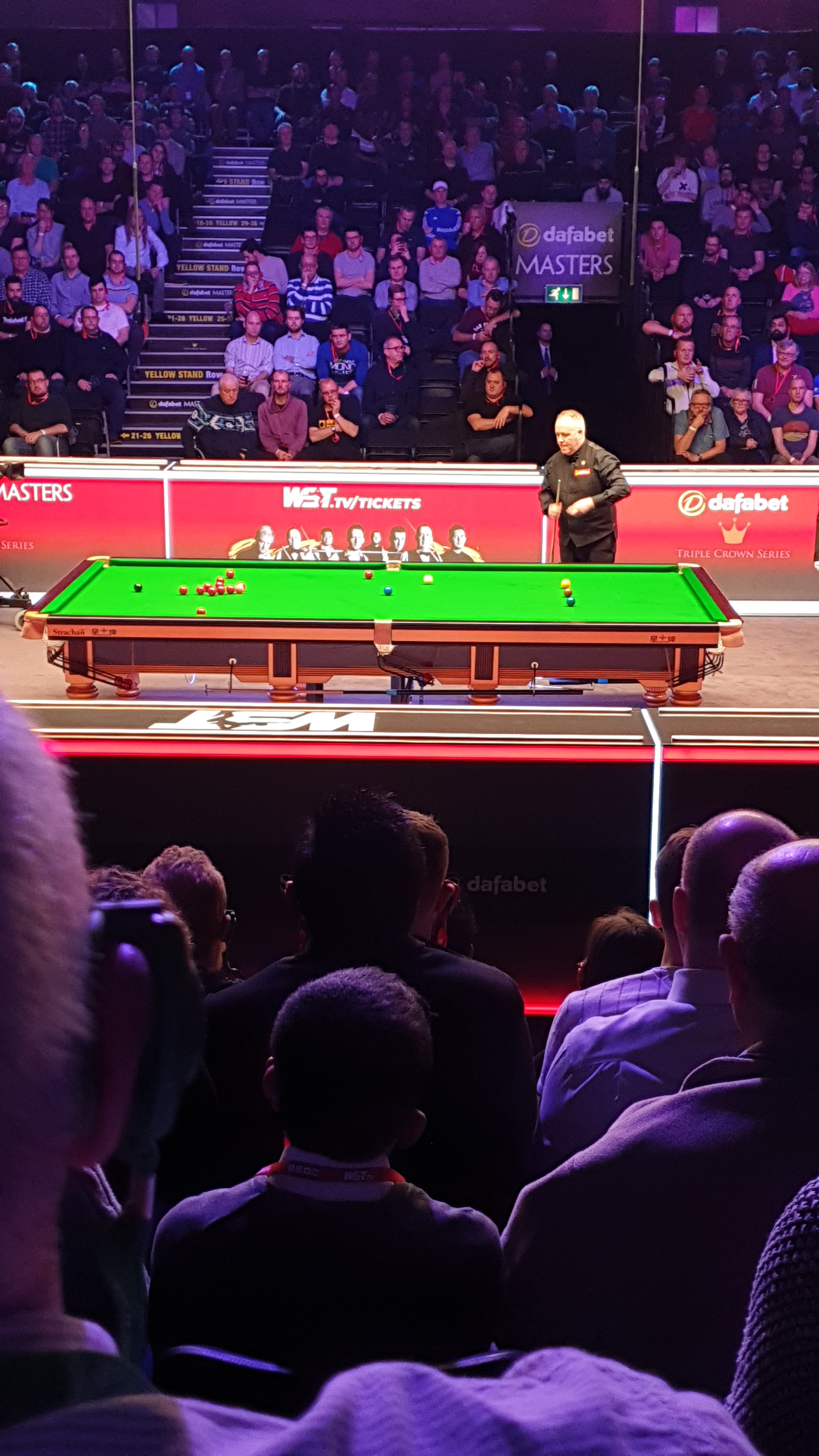 Higgins V Hawkins